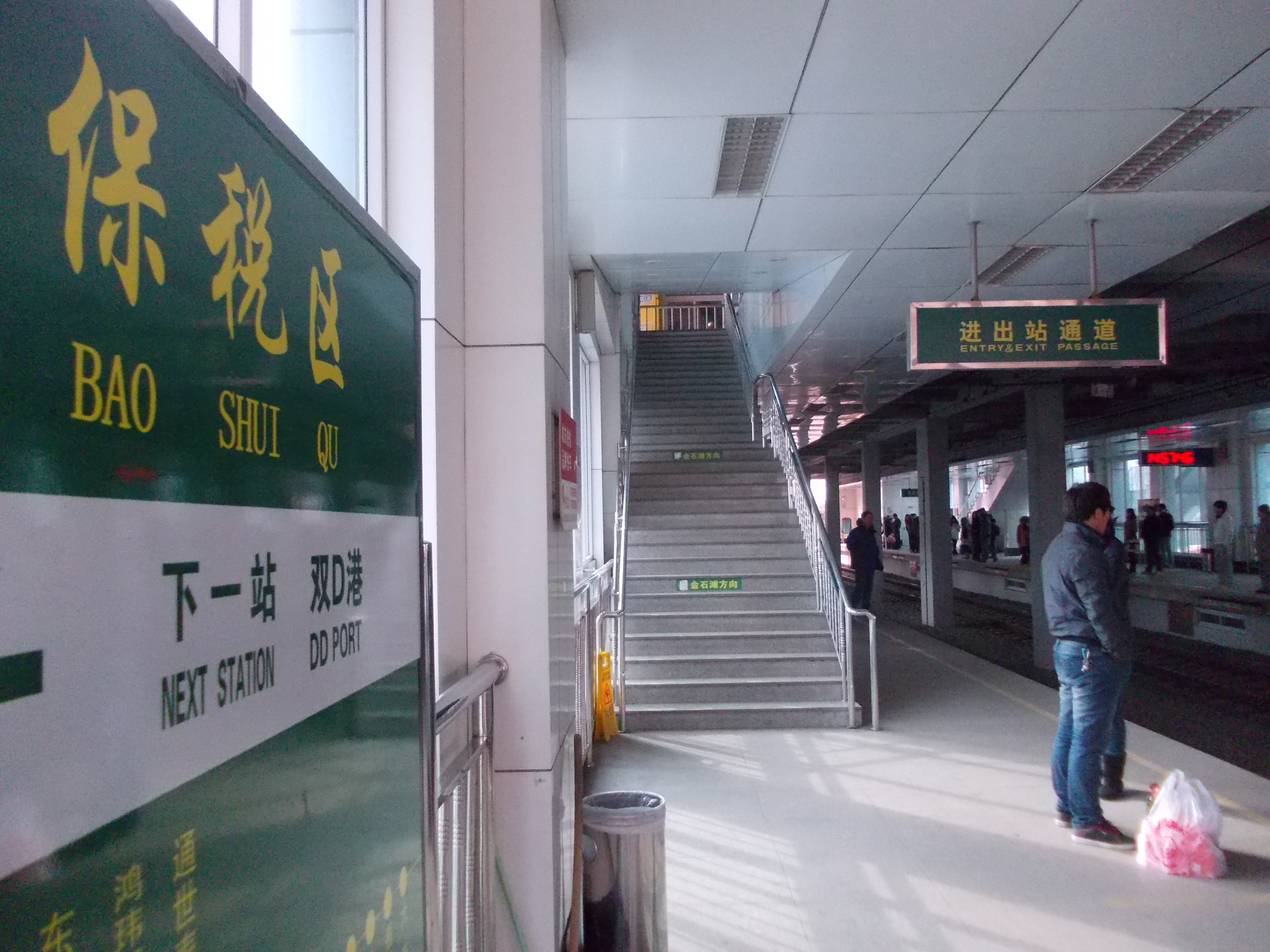 Dalian Metro, Baoshuiqu Station, Sign